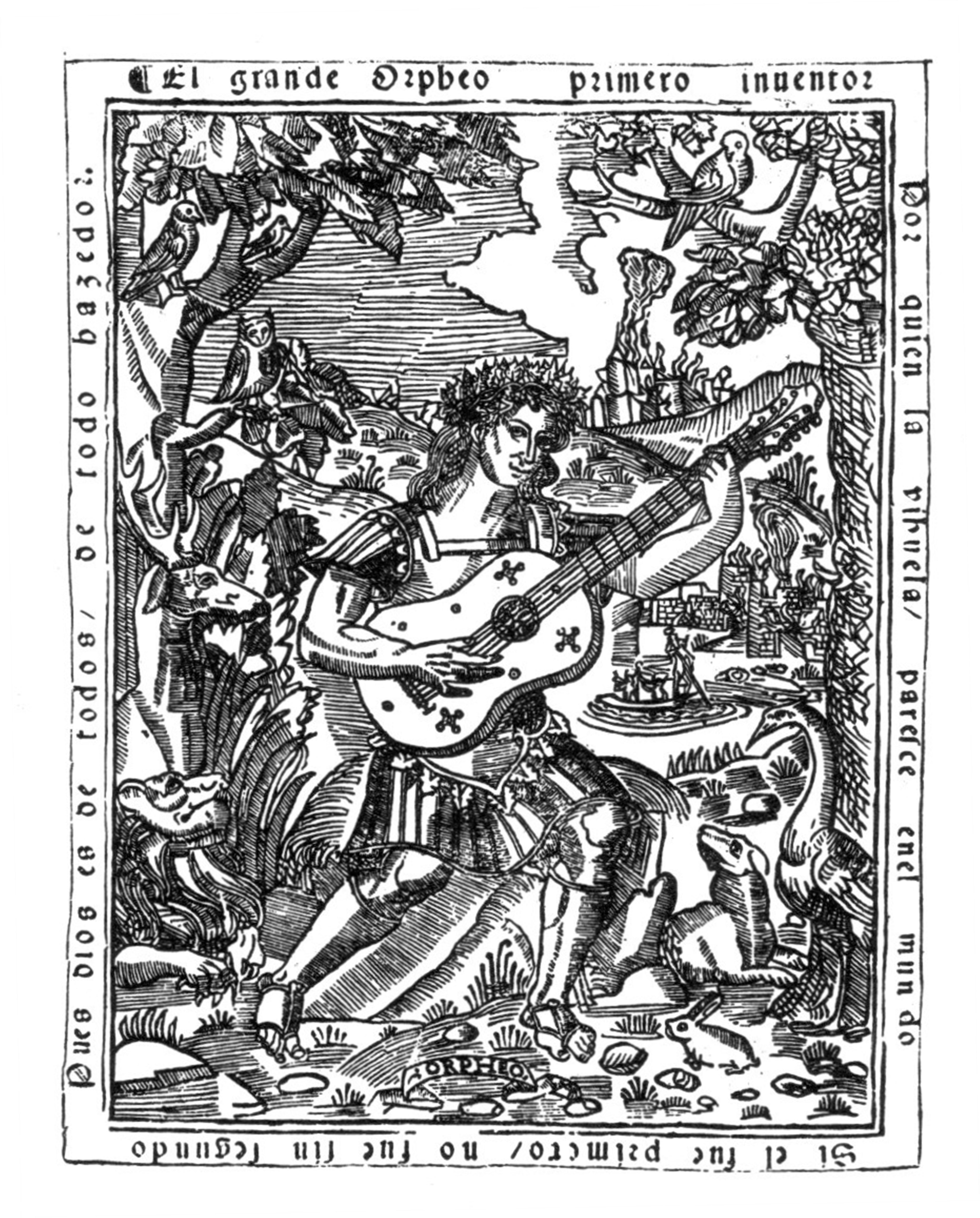 Frontispiece to Libro de música de vihuela de mano intitulado El maestro written by Luis de Milan